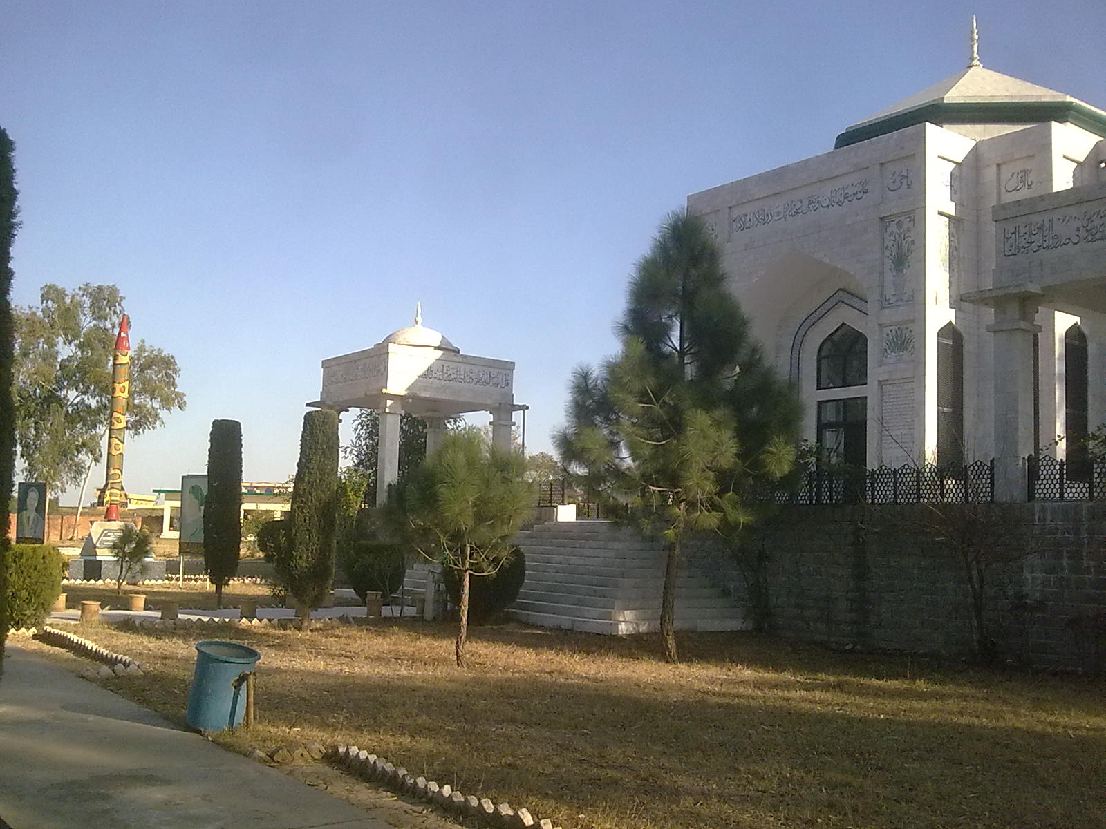 Tomb of Sultan Shahabuddin Muhammad Ghouri